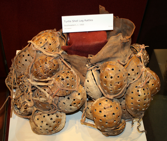 Southeastern women's turtleshell shackles for stomp dancing, ca. 1920s, from Oklahoma, in the collection of the Oklahoma History Center, OKC